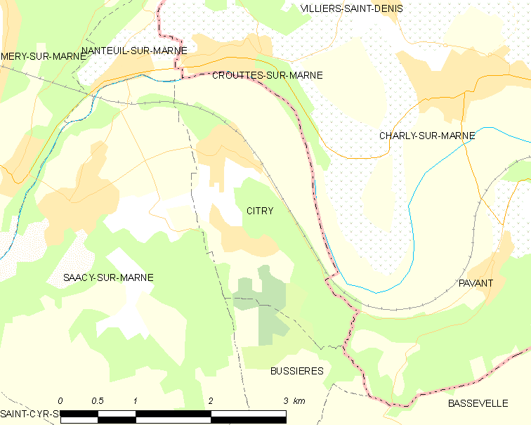 Map of French municipality Citry